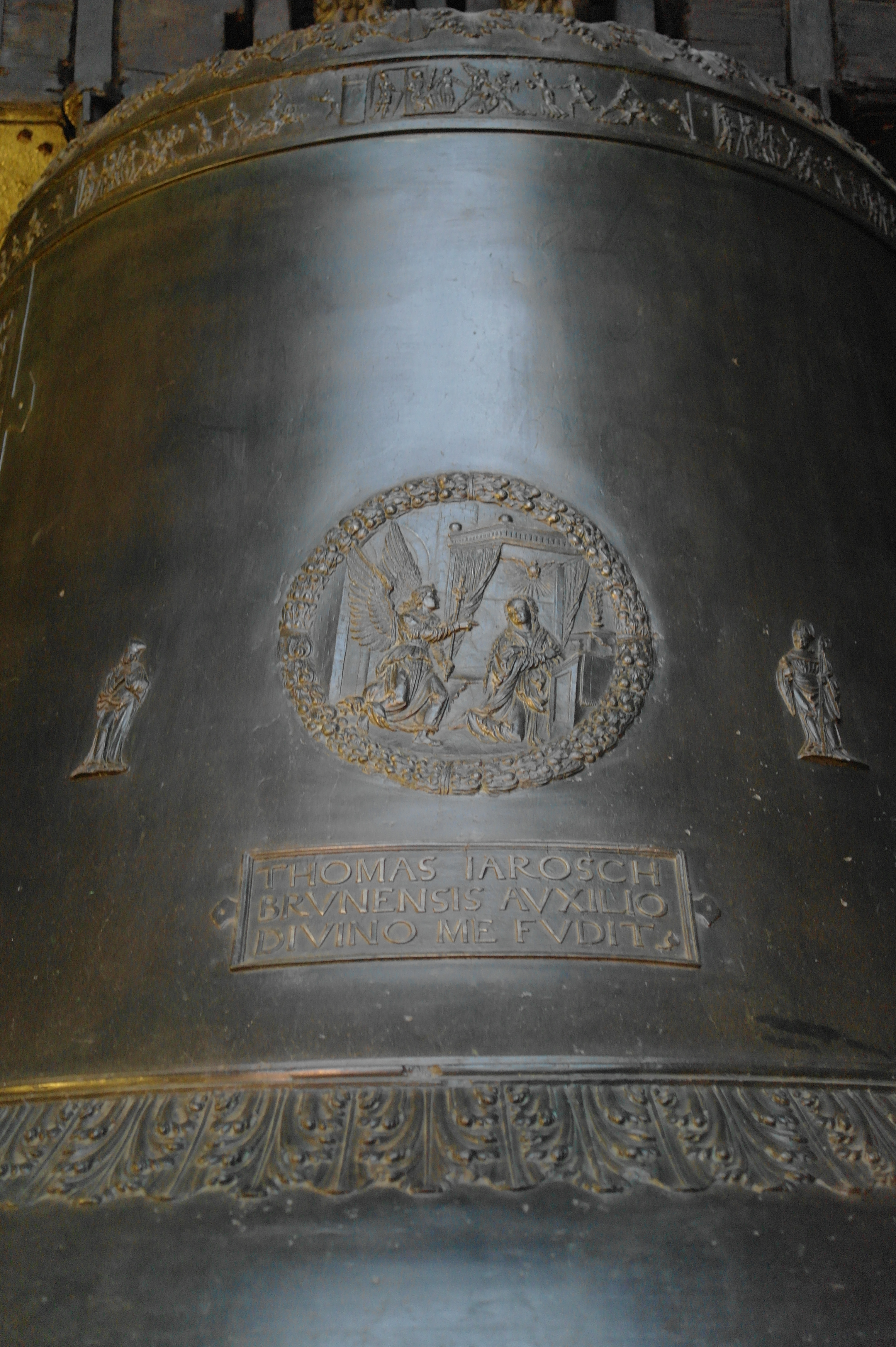 Church bell Zikmund in the tower of St. Vitus Cathedral, casted in 1549. In the centre relief of annunciation to the blessed virgin Mary, on the sides reliefs of Saint Ludmila and Saint Procopius of Sázava, at the bottom inscription "THOMAS IAROSCH BRVNENSIS AVXILIO DIVINO ME FVDIT" ("Tomáš Jaroš of Brno casted me with God's help").